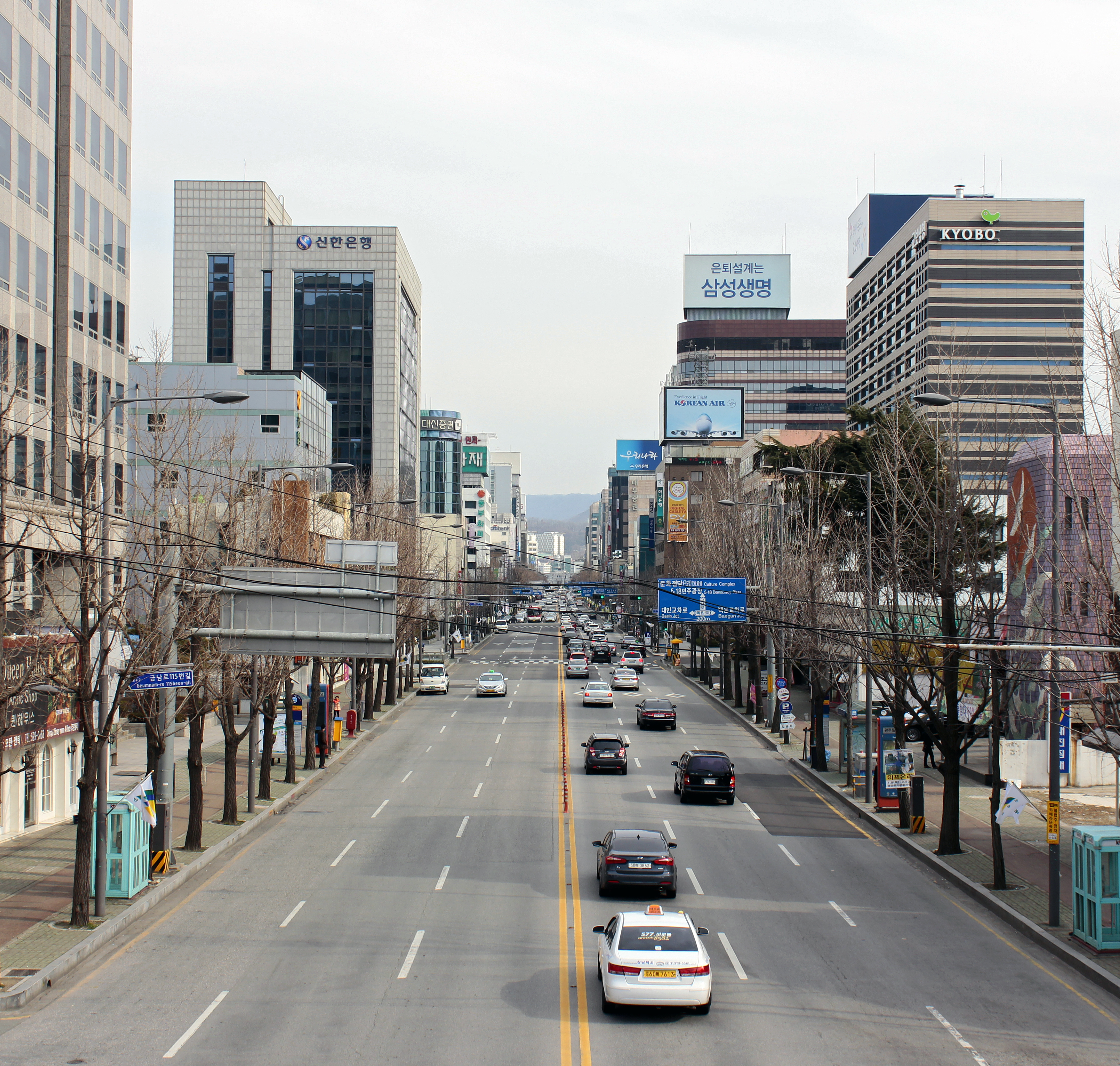 Geumnam-ro, the downtown area of Gwangju, South Korea.